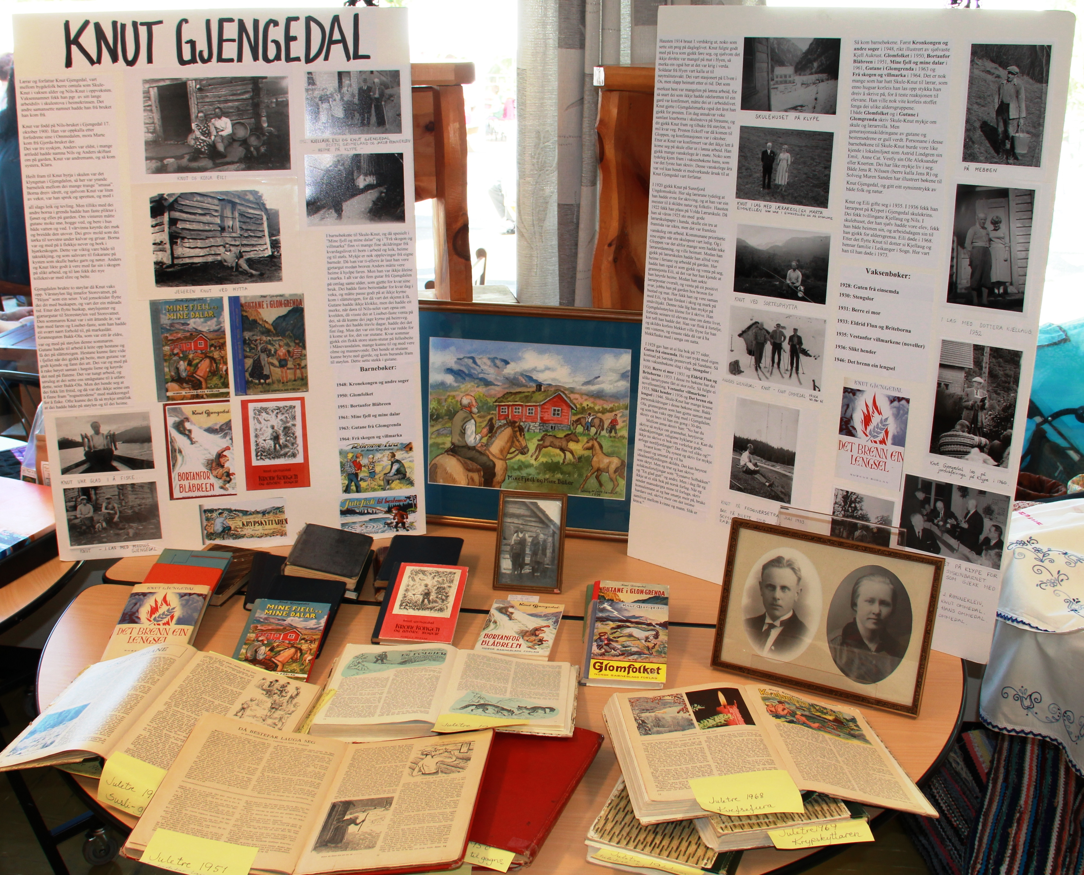 Exhibition of writer Knut Gjengedal (1900-1973), books, pictures and information.